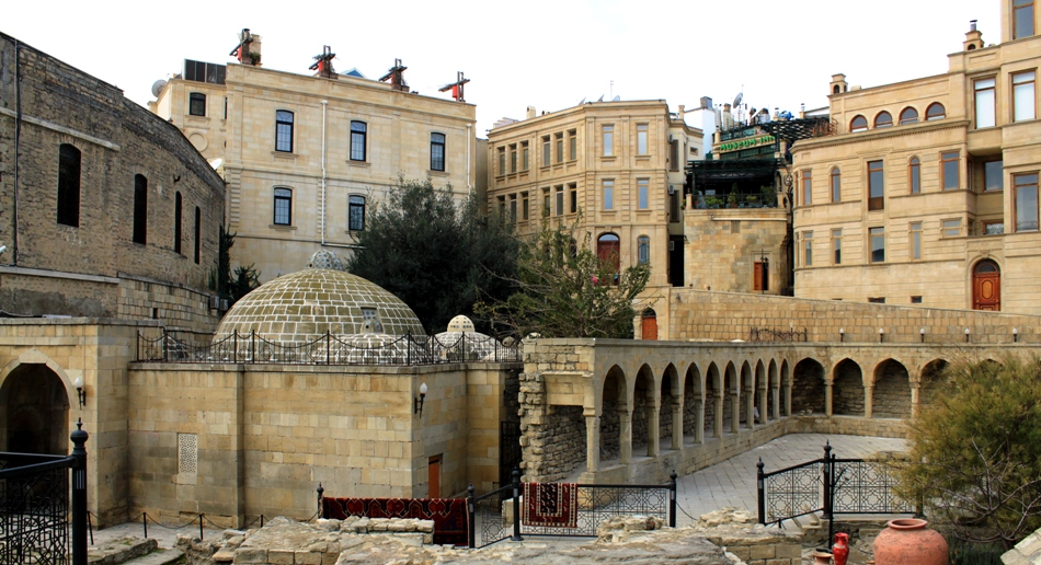 Baku old City